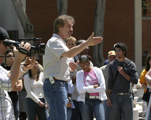 Evangelist Ray Comfort open-air preaching at a Great News Network evangelism boot camp in 2004, while a member of his Way of the Master video production team films the encounter. Photo courtesy of The Great News Network.